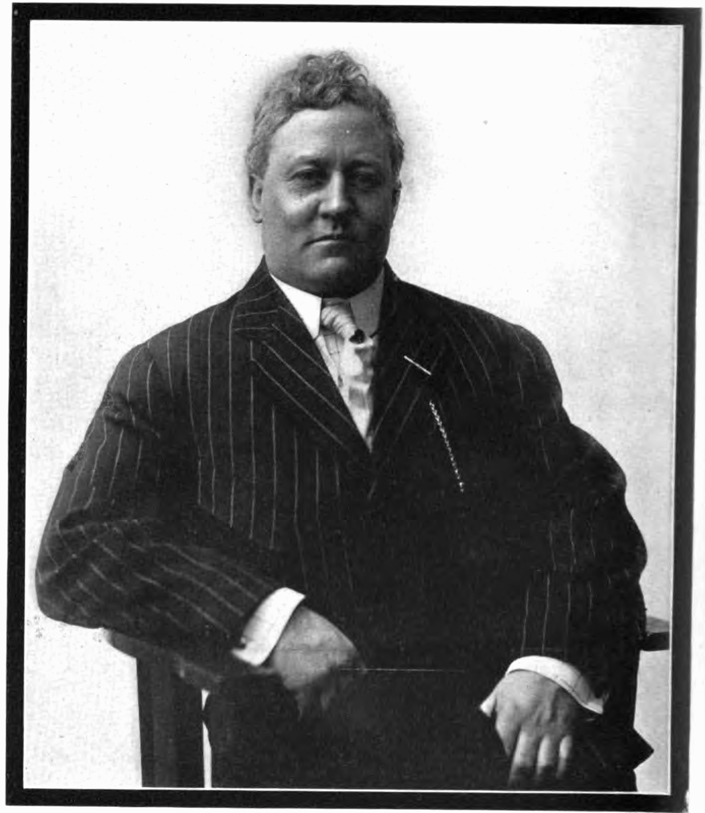 Arthur Deagon ( b. circa 1871 Kilmarmock, SCOTLAND - d. Sep 04, 1927 Boston, Massachusetts, USA ) was a Scots-American musical theatre actor.